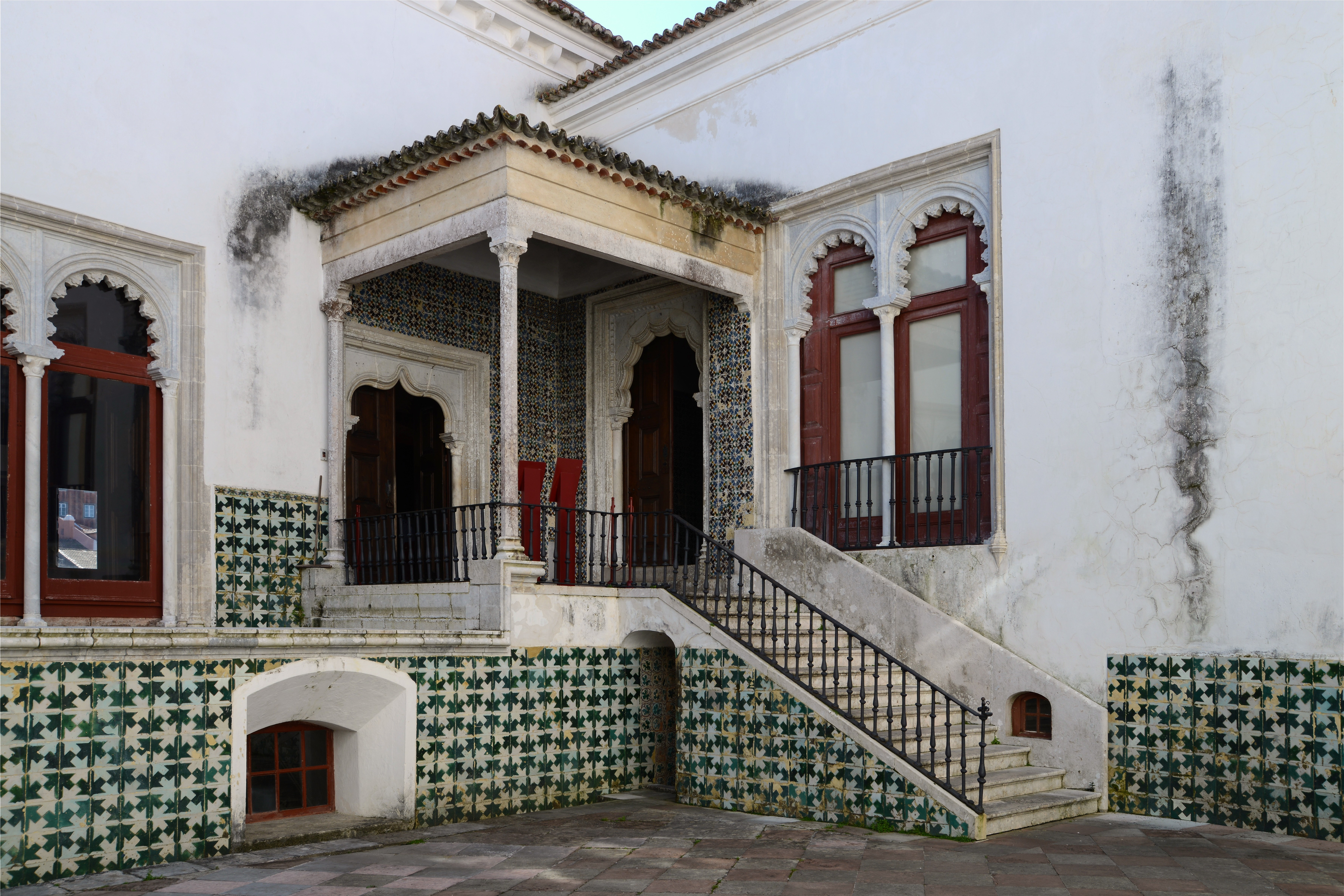 Palácio Nacional de Sintra, Portugal. Main courtyard